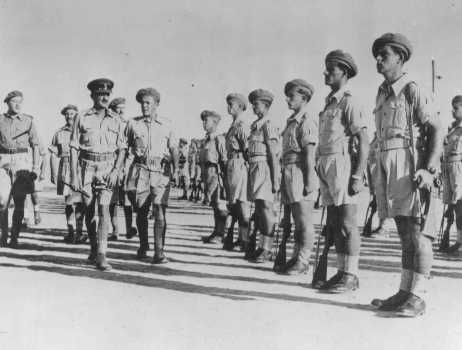 Brigadier General Ernest Frank Benjamin, commanding officer of the Jewish Brigade, inspects the Second Battalion. Palestine, October 1944